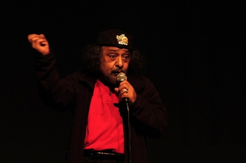 Hadi Khorsandi, Persian poet and satirist, Amsterdam, 2010 (Photo: Persian Dutch Network)